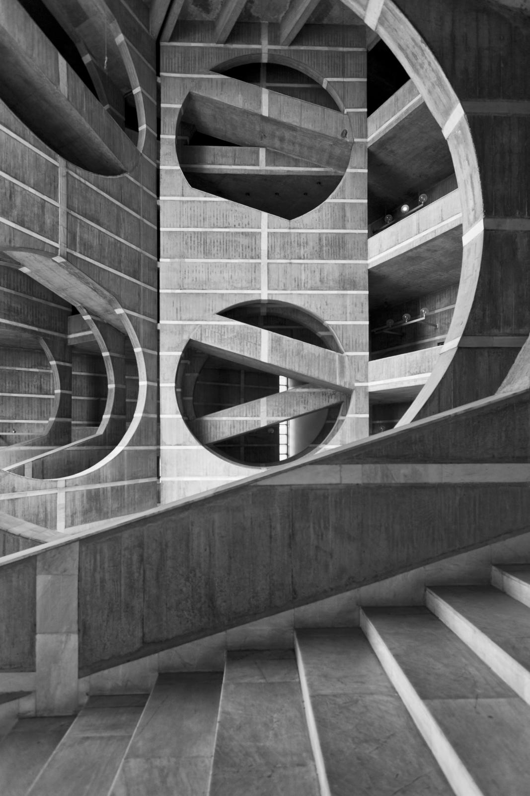 National Assembly of Bangladesh, Dhaka